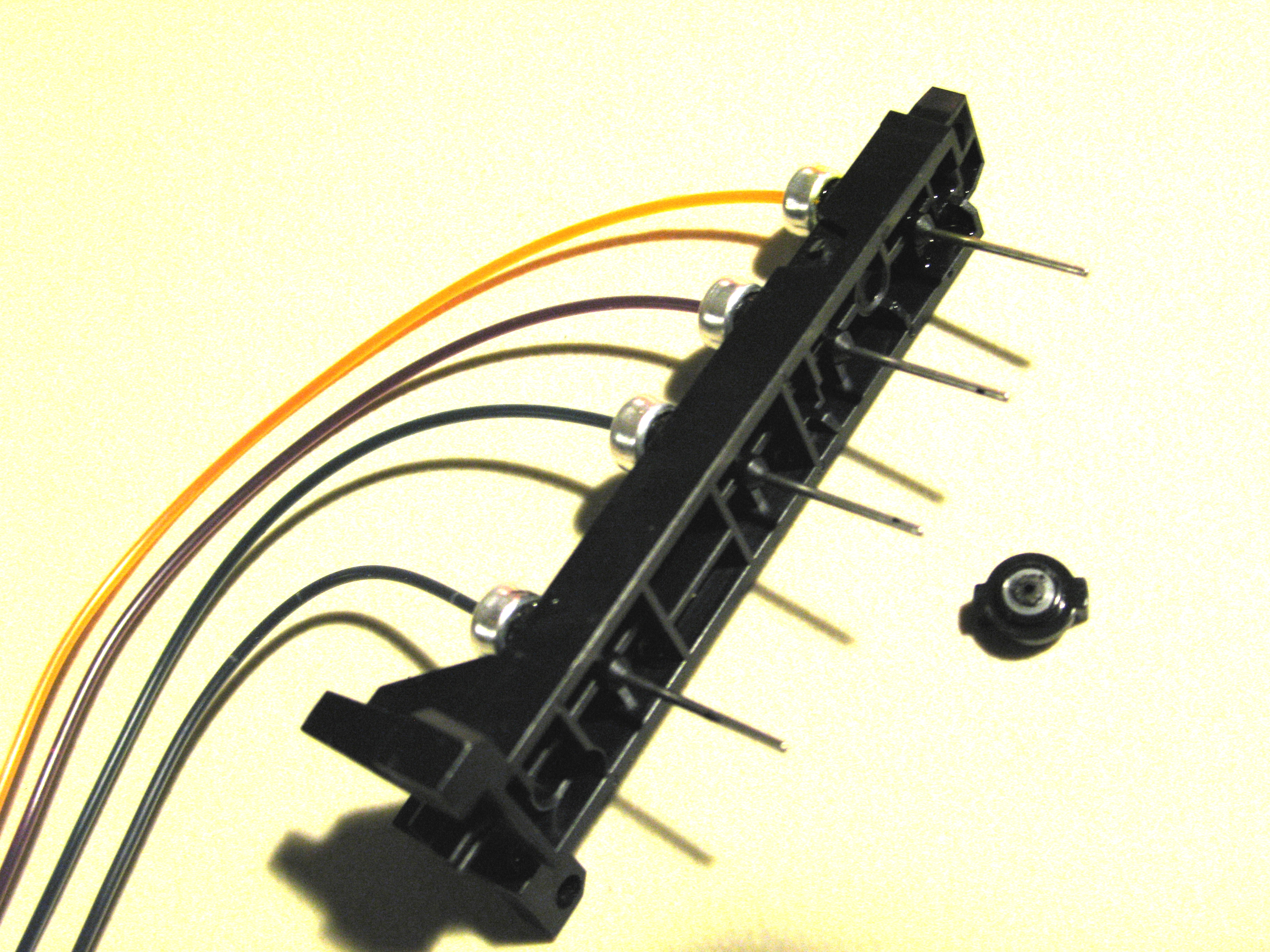 HP Business Inkjet 1200n - Continuous Ink System - Ink feed system needle overview